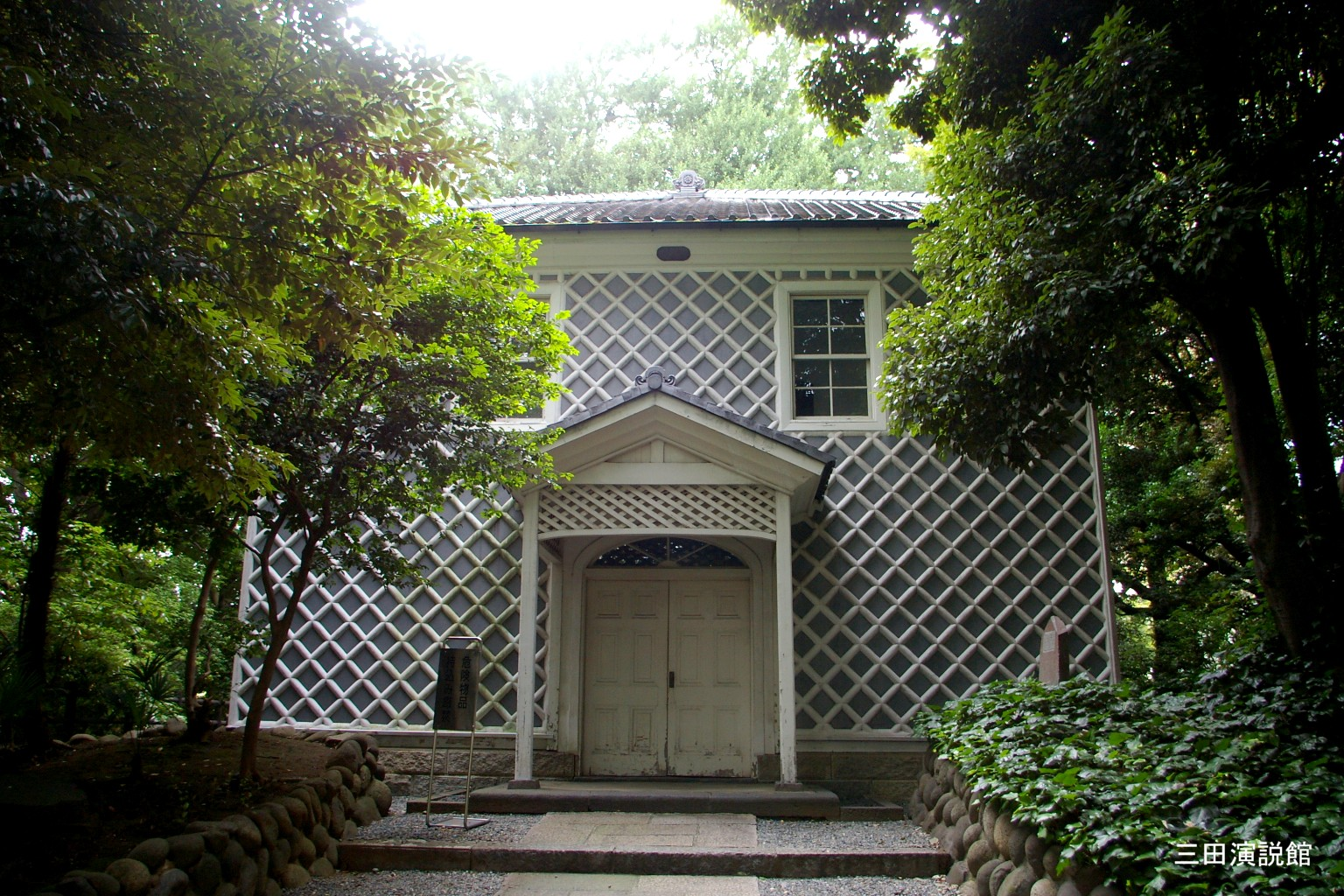 Mita Enzetsu-kan is a Public Speaking Hall in Keio University at Mita Tokyo Japan. Built in 1875. First Public Speaking Hall in Japan.